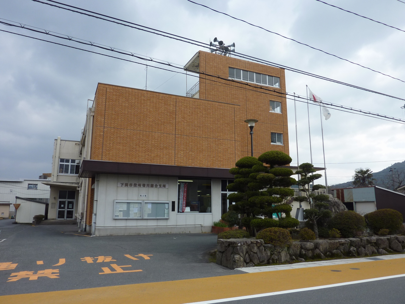 Shimonoseki City Office Kikugawa Synthesis Branch (Former Kikugawa Town Office - Yamaguchi Prefecture, Japan)